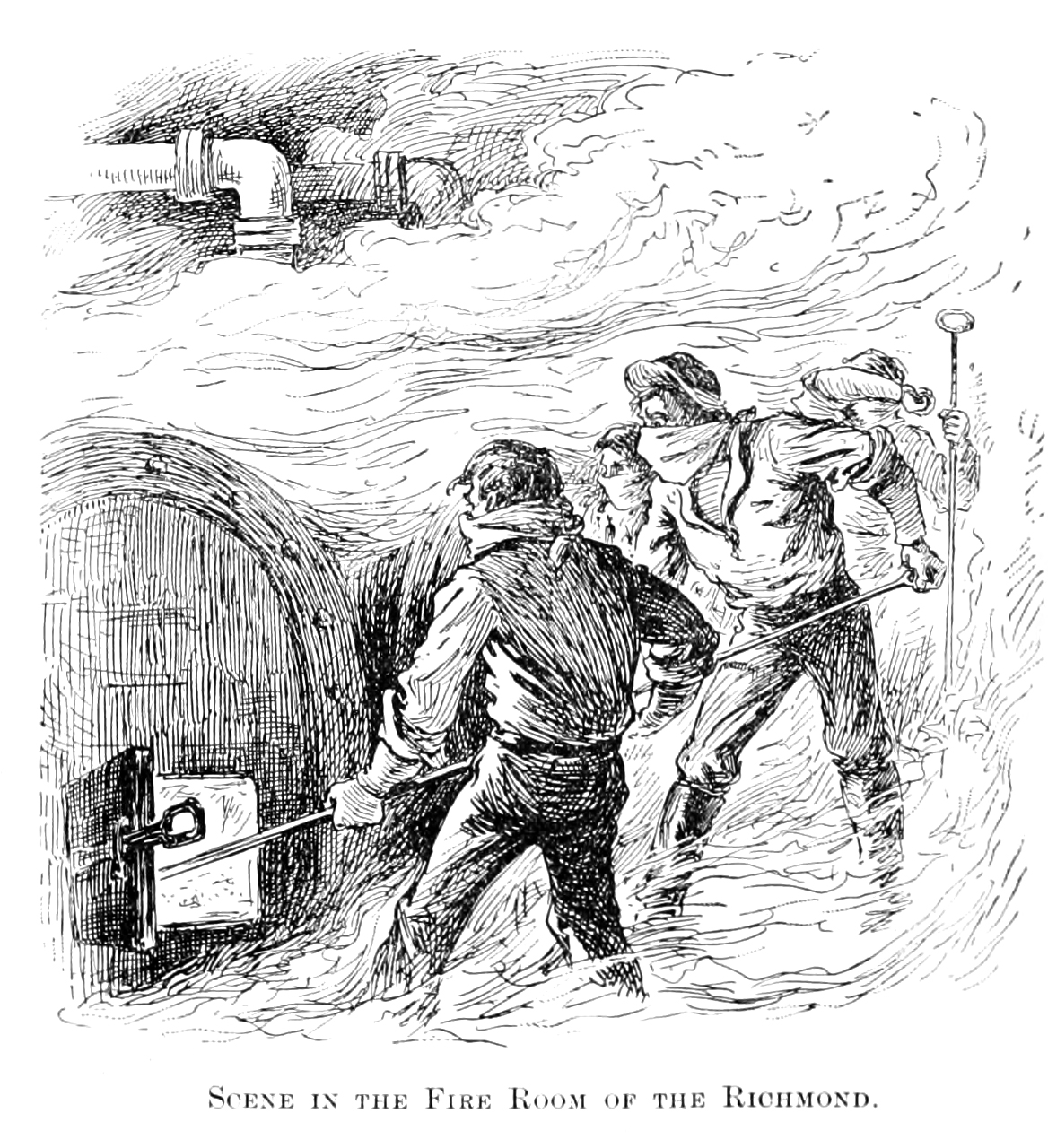 Image from the book "The Story of American Heroism: Thrilling Narratives of Personal Adventures During the Great Civil War, as Told by the Medal Winners and Roll of Honor Men" page 681